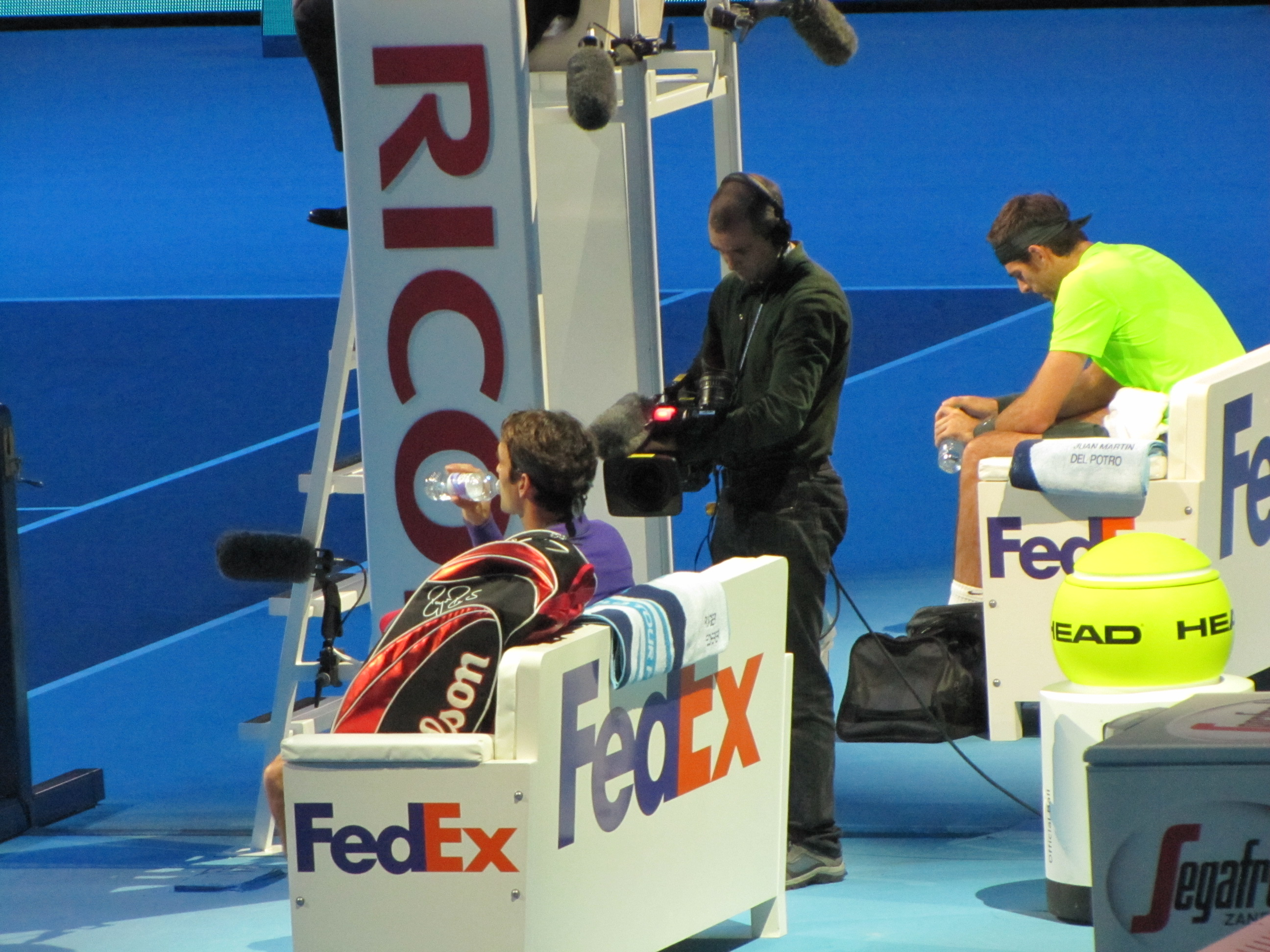 Roger Federer vs Juan Martín del Potro, in the 2012 APT World Tour Finals series at the O2 Arena.